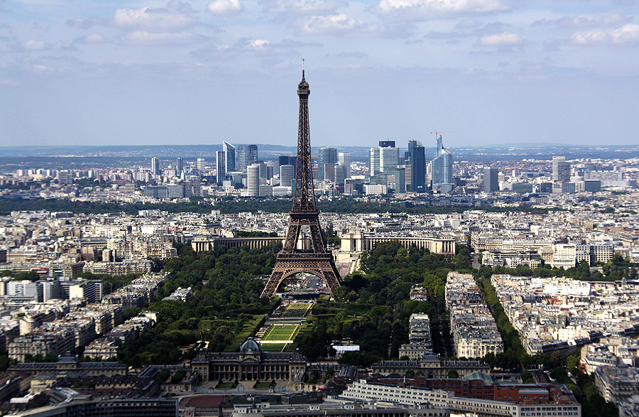 Eiffel Tower, in front - Champ de Mars, behind - la Défense